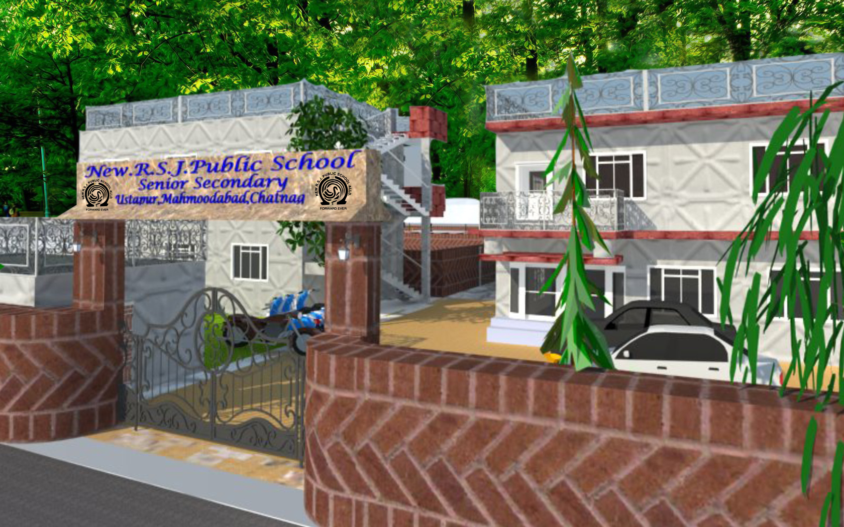 This is 3D Sketch of front of New R. S. J. Public School Senior Secondary created by Ashutosh Shukla, a student of same school using Google SketchUP.